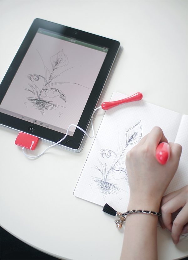 picture of using SomPen package